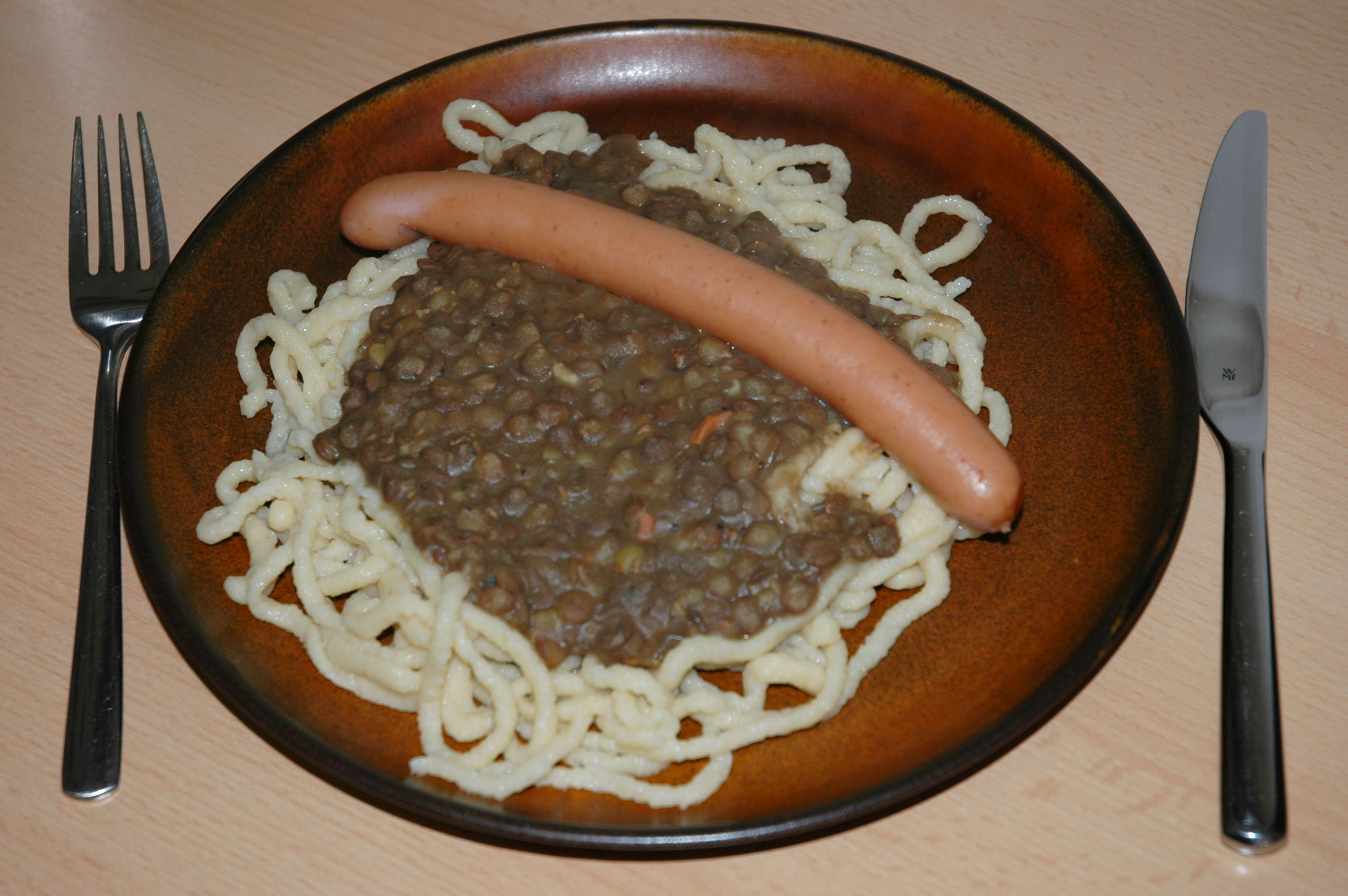 lenses and spätzle (pasta typical of Southern Germany).